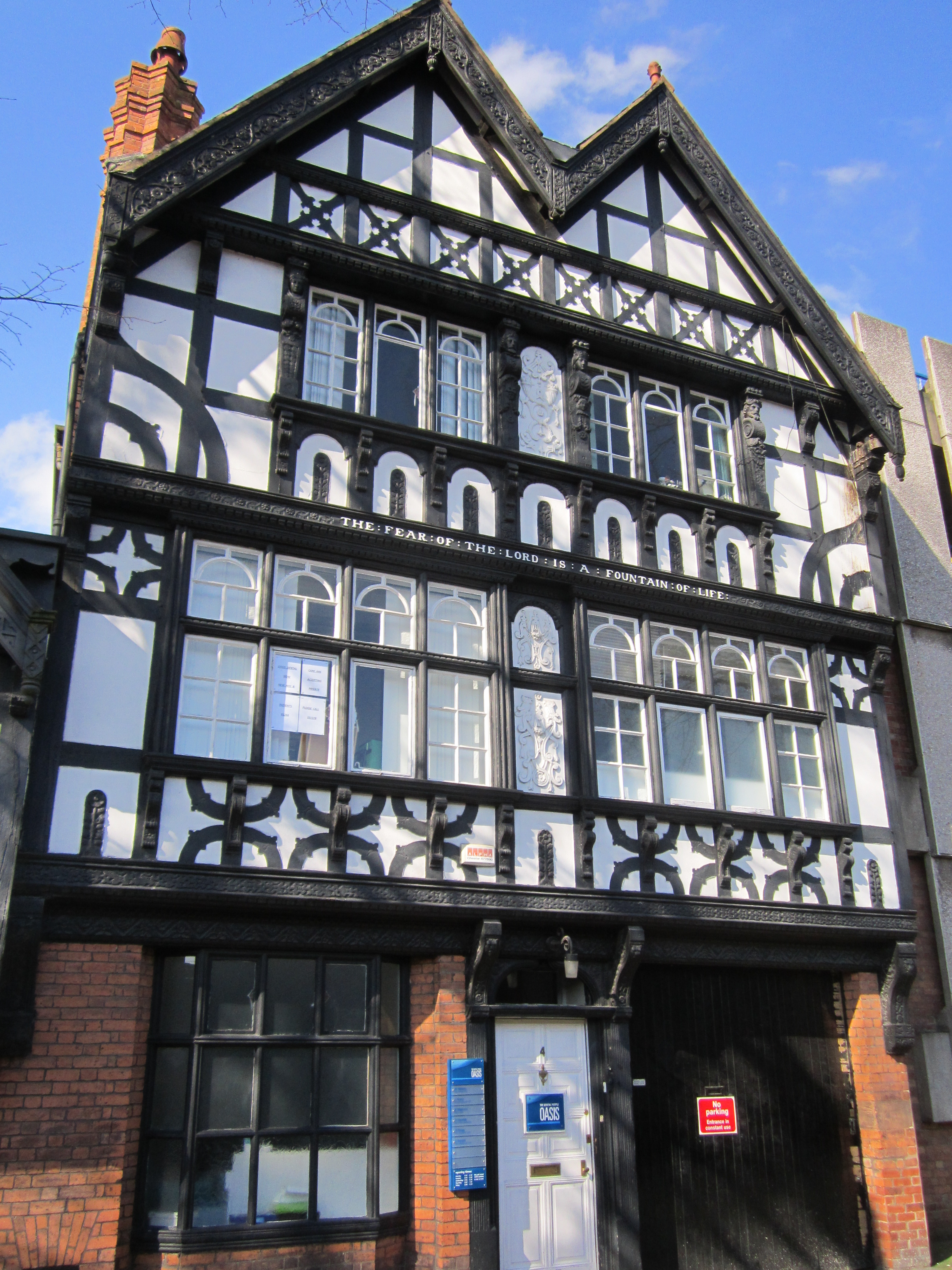 4 Park Street, Chester, England. Currently in use as a dental practice.